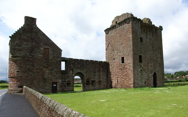 Burleigh Castle, Milnathort, Perth and Kinross, Scotland - east side